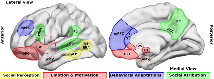 Brain areas that participate in social processing. A simple classification of brain areas involved in social processing differentiates regions that participate in four related processes. The first is the perception of basic social stimuli, such as biological motions (V5), part of the body (extra-striate body area, EBA), and faces (fusiform face area, FFA). Another process includes emotional and motivational appraisal, where the amygdala (AMY), the anterior insula (AI), the subgenual and perigenual anterior cingulate cortex (ACC), as well as the orbitofrontal cortex (OFC) participate. These cortical structures are in interaction with subcortical structures as the ventral striatum (VS), and the hypothalamus (HTH). These structures in turn interact with other regions which participate in the goal-directed, adaptive behaviors, and the categorization processes, such as the dorsolateral and the medial prefrontal cortex (dlPFC, mPFC) and the ACC. Finally for social attribution, areas like the ventral premotor cortex (vPMC), the superior temporal sulcus (STS), the AI, the posterior cingulate cortex (PCC), and the precuneus (PC) participate in more automatic, bottom-up inferences of other people’s mental states; whereas structures like the mPFC and the temporo-parietal junction (TPJ) are involved in more cognitive theory of mind skills.